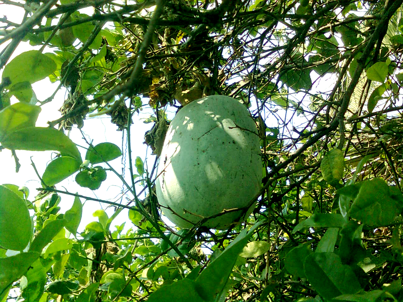 Ash Gourd (benincasa pruriens) fruit at Pogallapalli in Khammam district, Andhra Pradesh